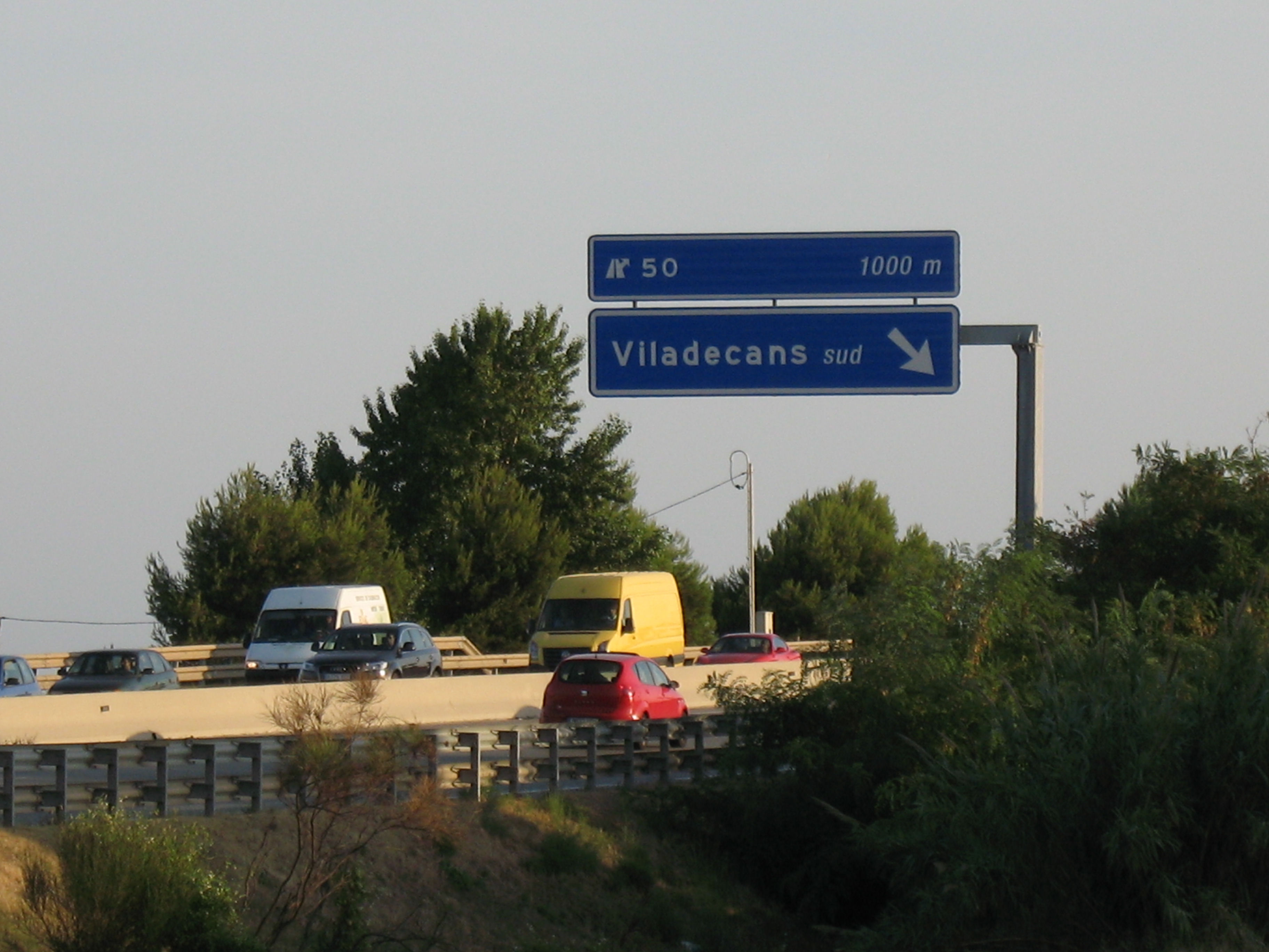 A wiew of the C-32 spanish motorway at Viladecans.